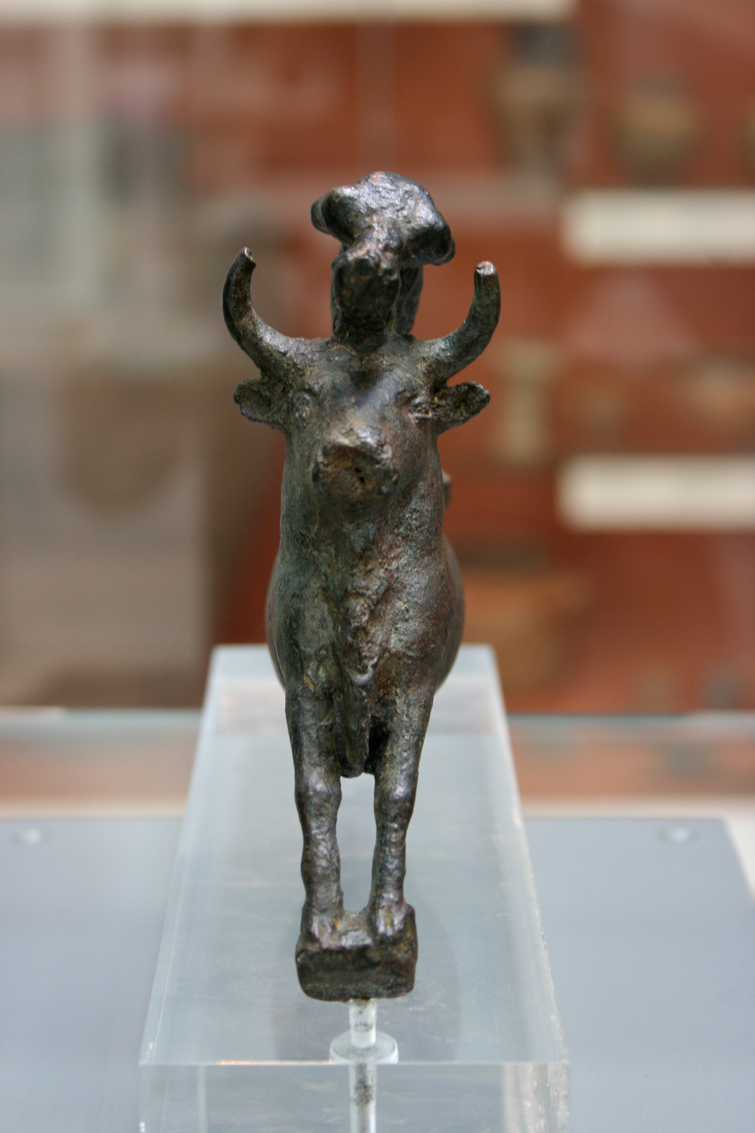 Minoan Bull-leaper at the British Museum. Bronze group of a bull and acrobat. Minoan, 1550-1450 BC. Said to be from south west Crete.